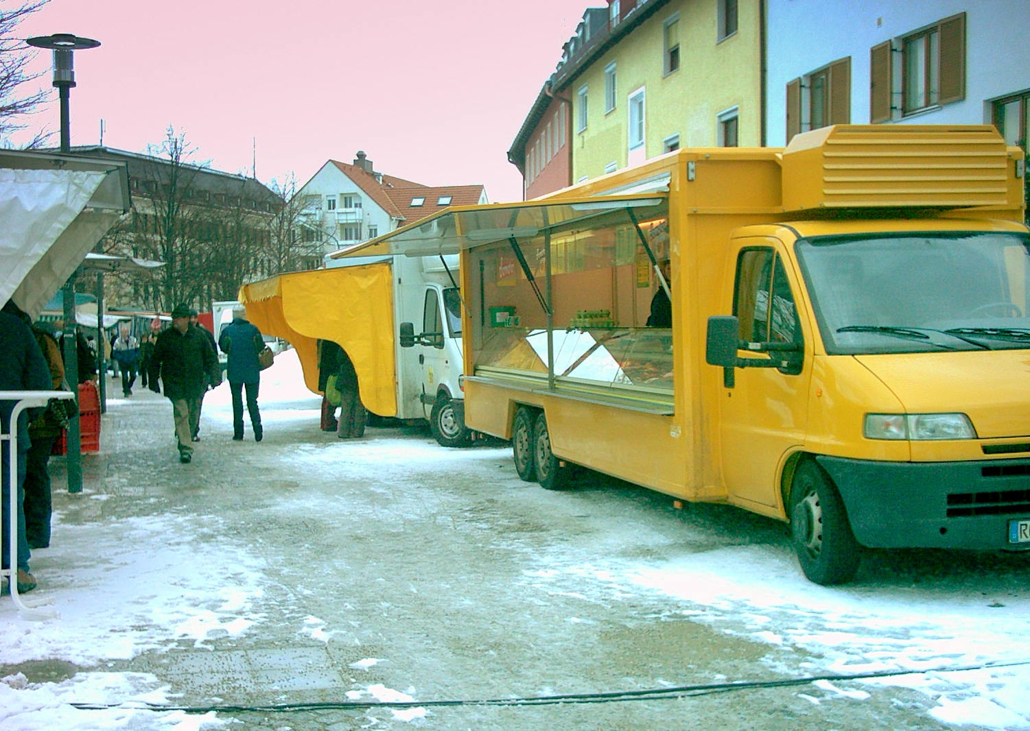 Weekly market at Mangfallplatz, Munich-Harlaching with mobile bakery.